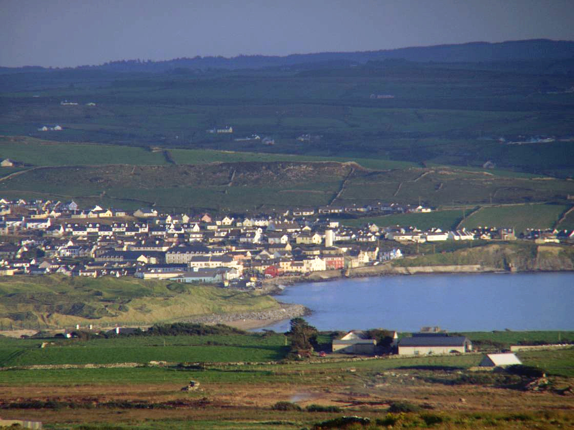 Lahinch, evening time, high tide. Danny Burke